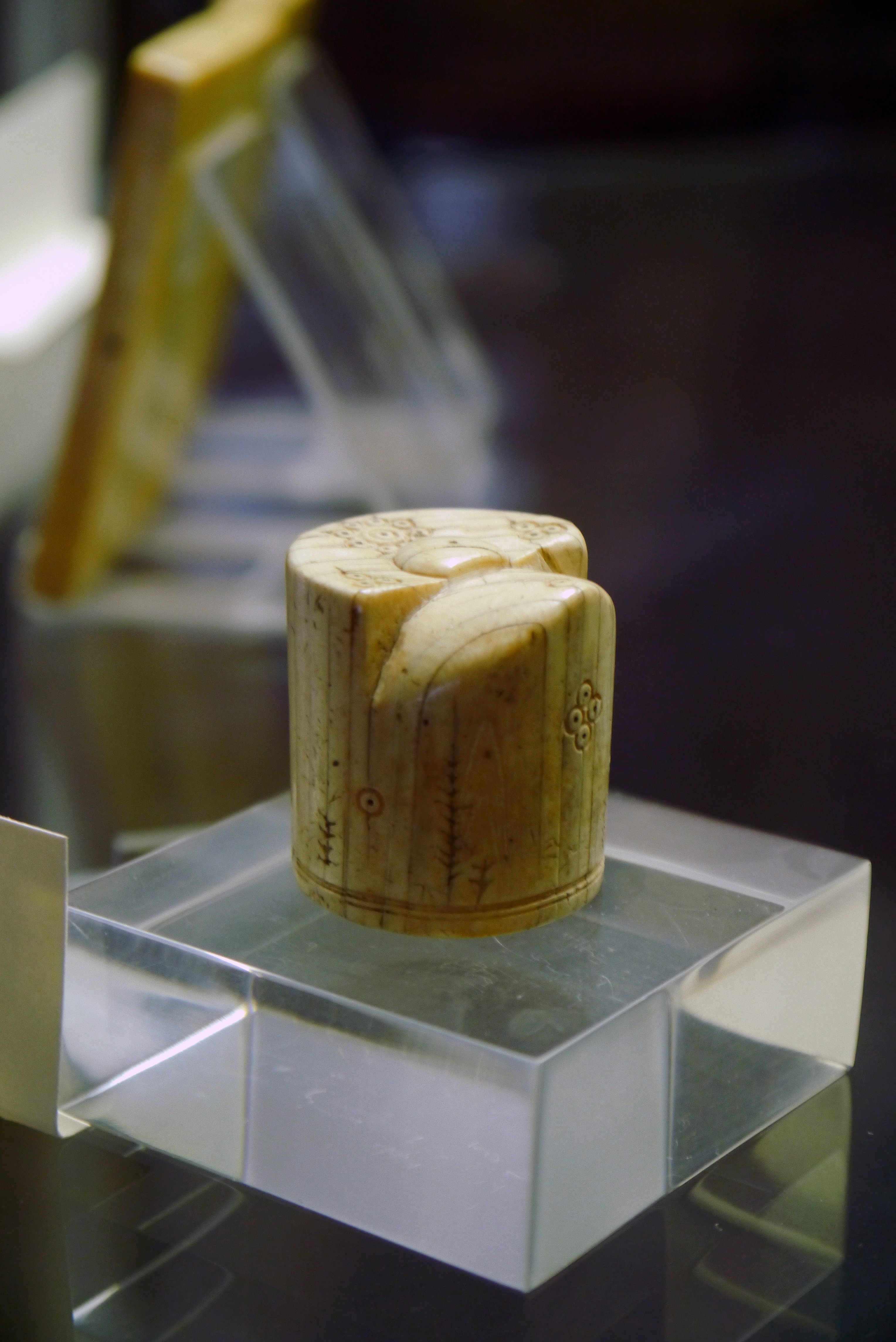 Cabinet des médailles, Paris, France. Ivory chess king or vizier, 9th century, islamic art.